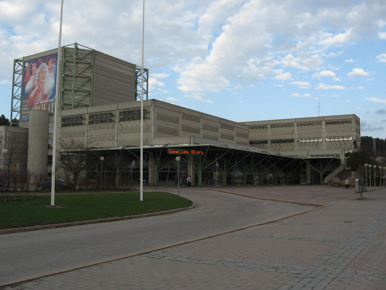 Lahti Theater, Lahti, Finland